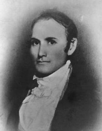 Portrait of Solomon P. Sharp